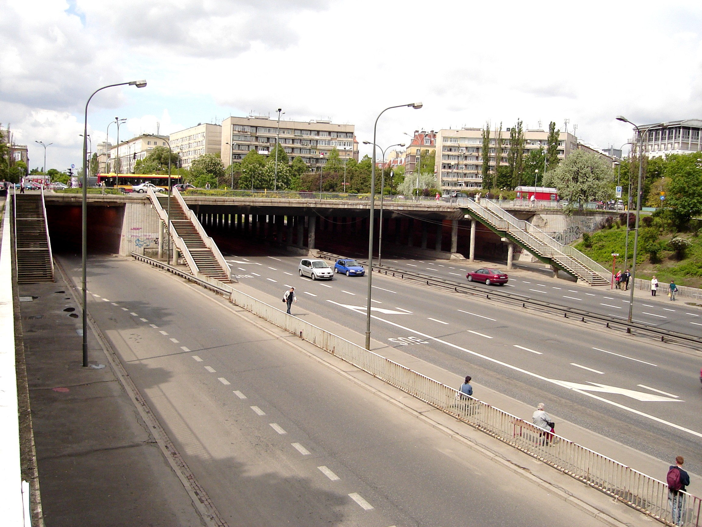 Widok na tunel i plac Na Rozdrożu 2